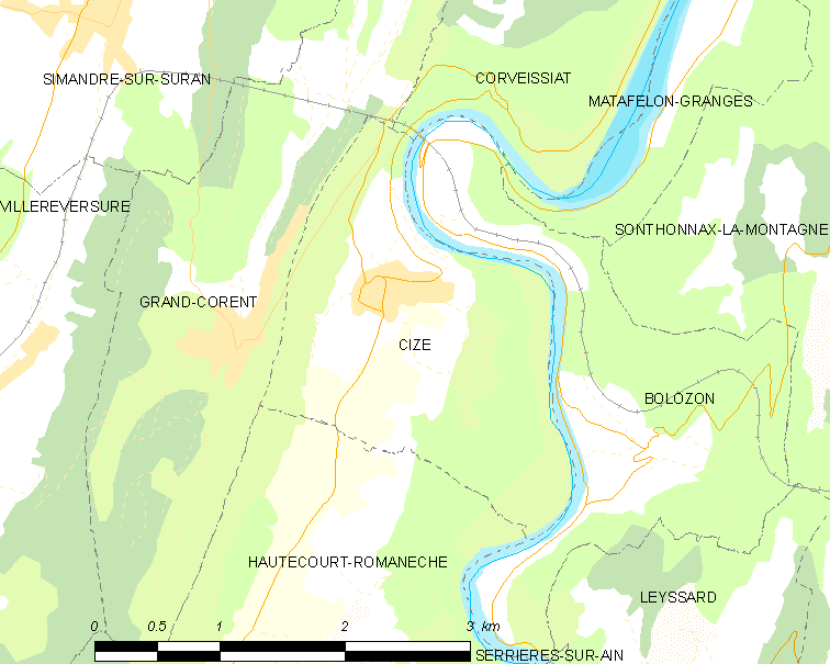 Map of French commune: Cize Map commune FR insee code 01106.png